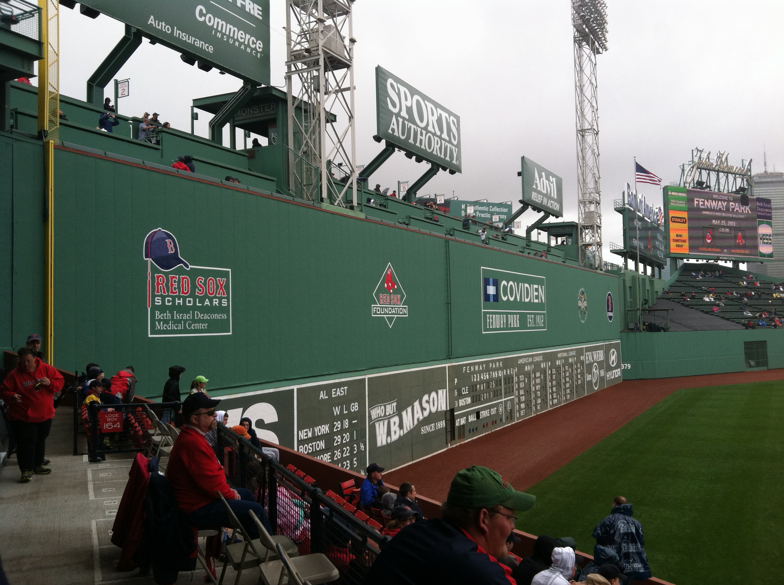 Green Monster at Fenway Park, May 25, 2013